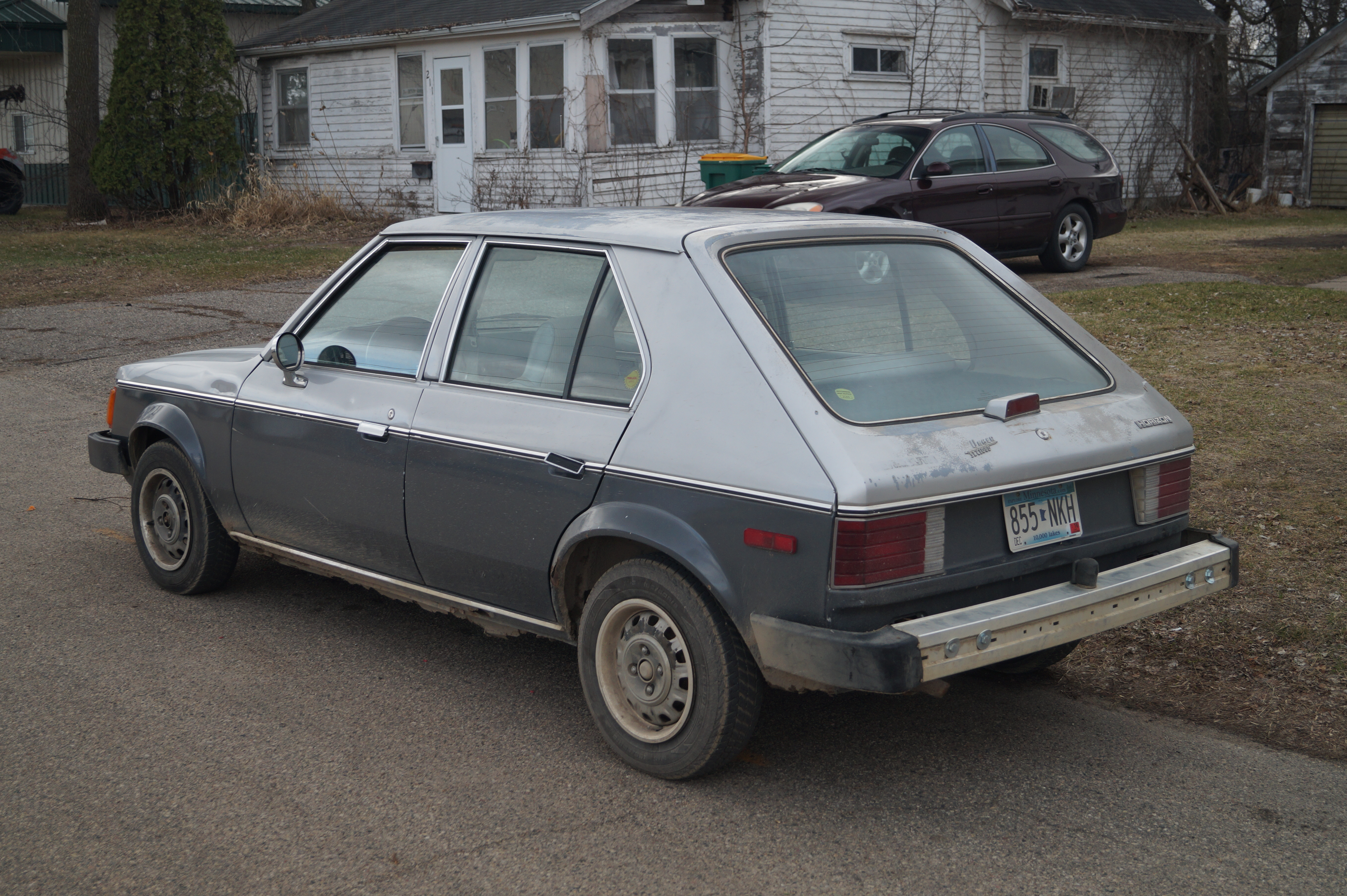 Click here for more car pictures at my Flickr site.